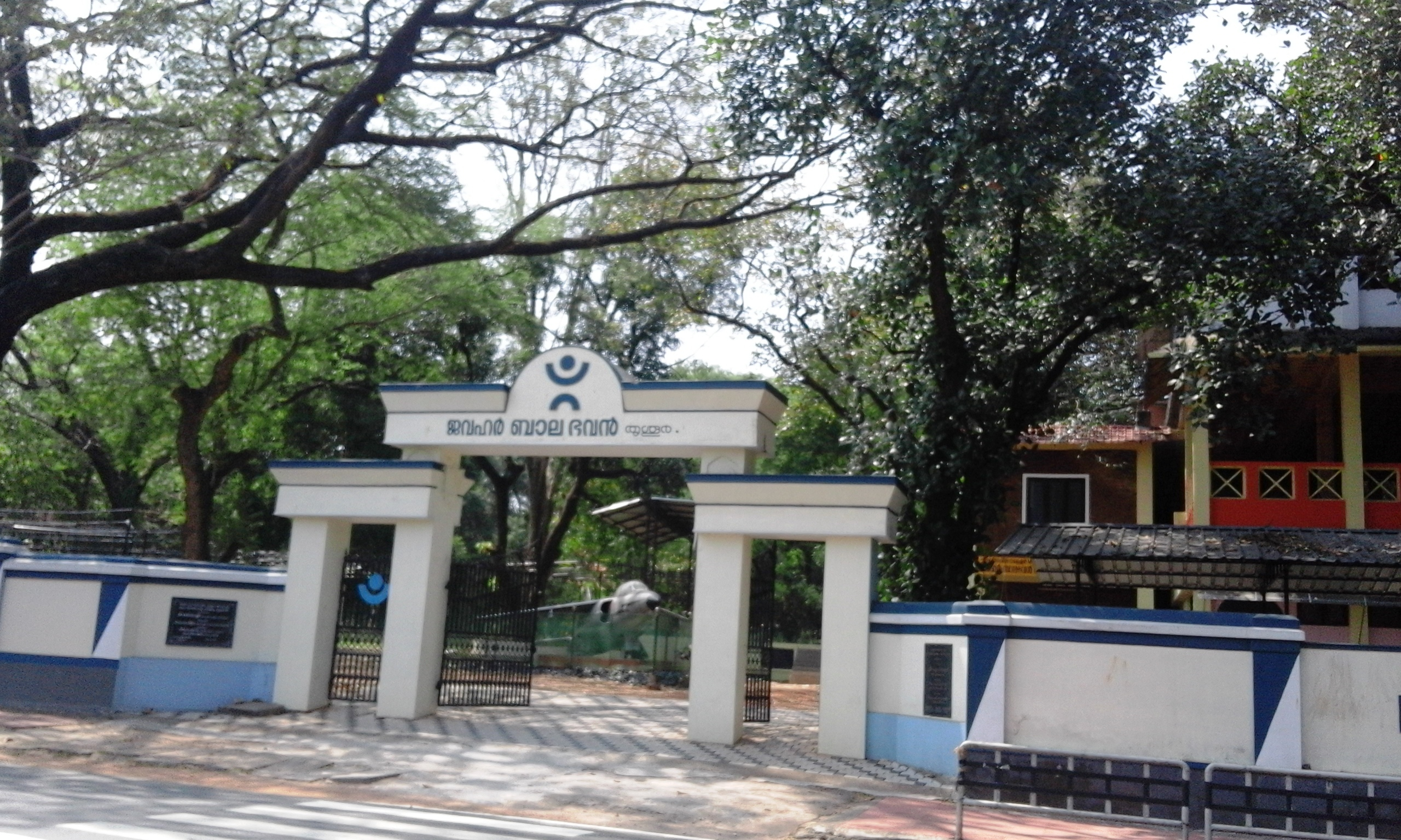 Thrissur City, Kerala, India